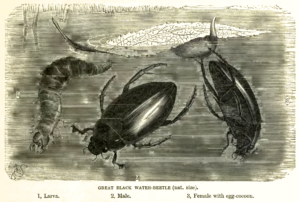 Hydrophilid great water beetle life history